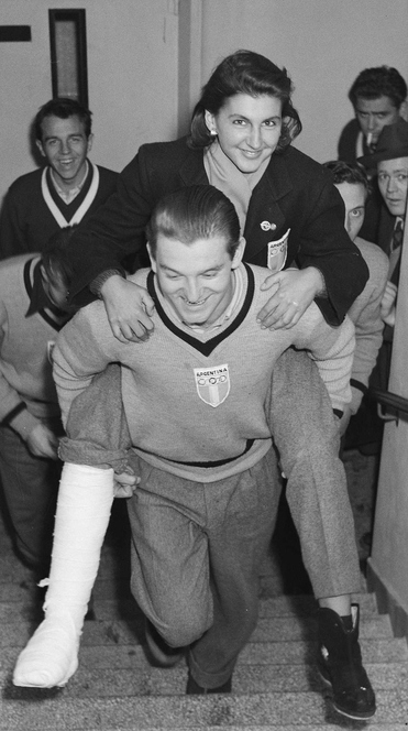 Argentine athletes at the Oslo Olympics